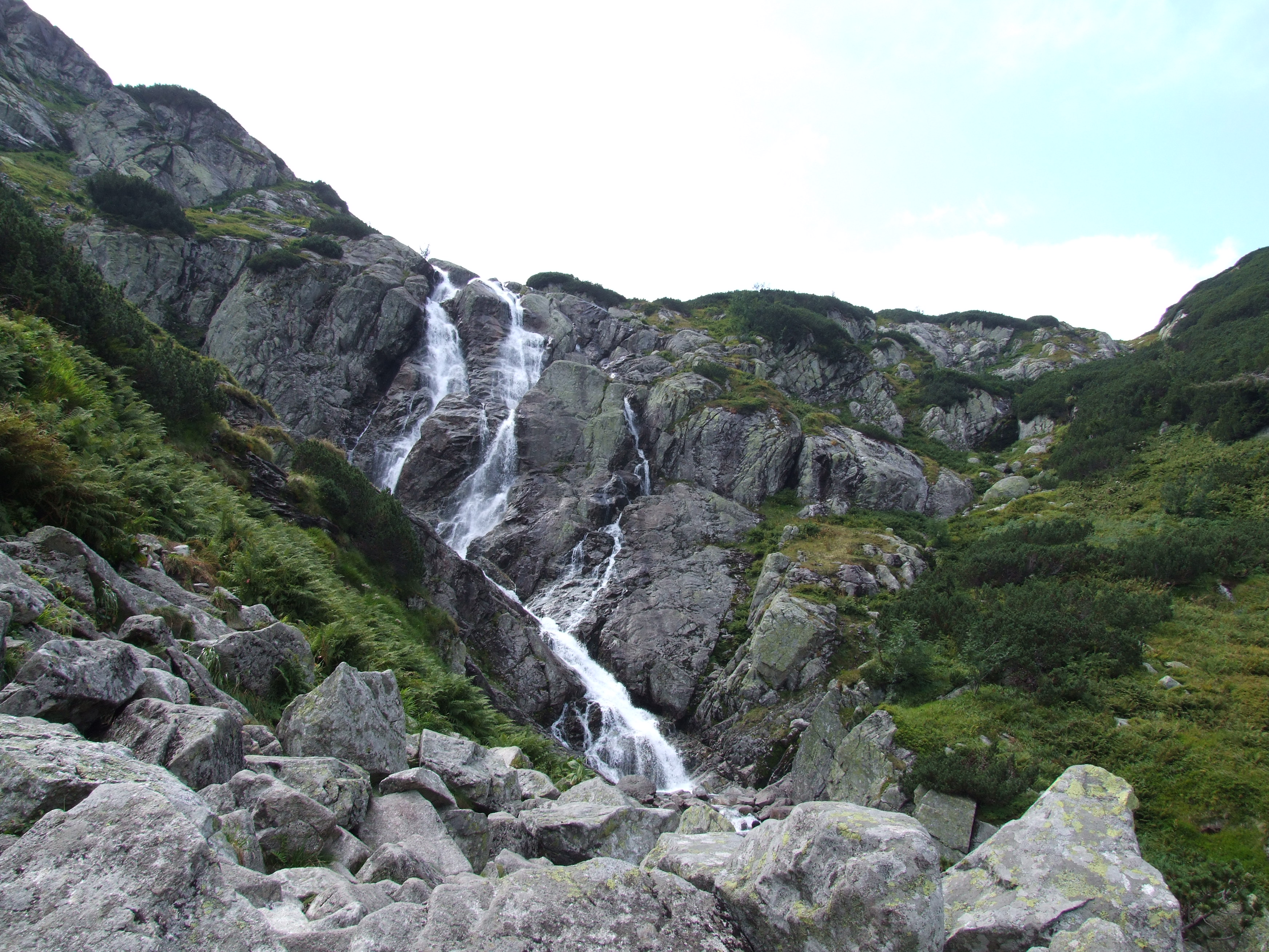 Wielka Siklawa waterfall on Roztoka stream (Roztoki Valley in High Tatras, Poland)